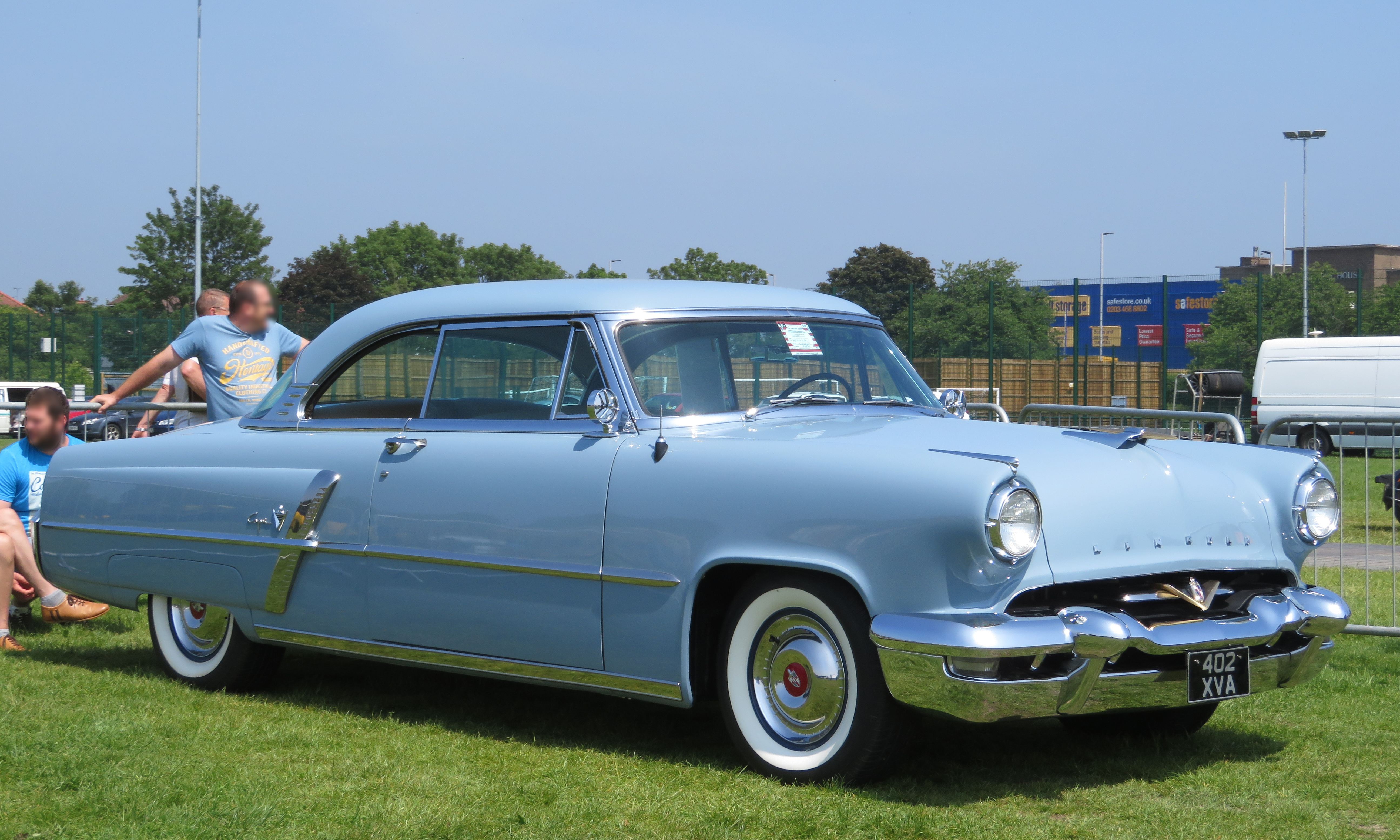 Lincoln Capri (1953)